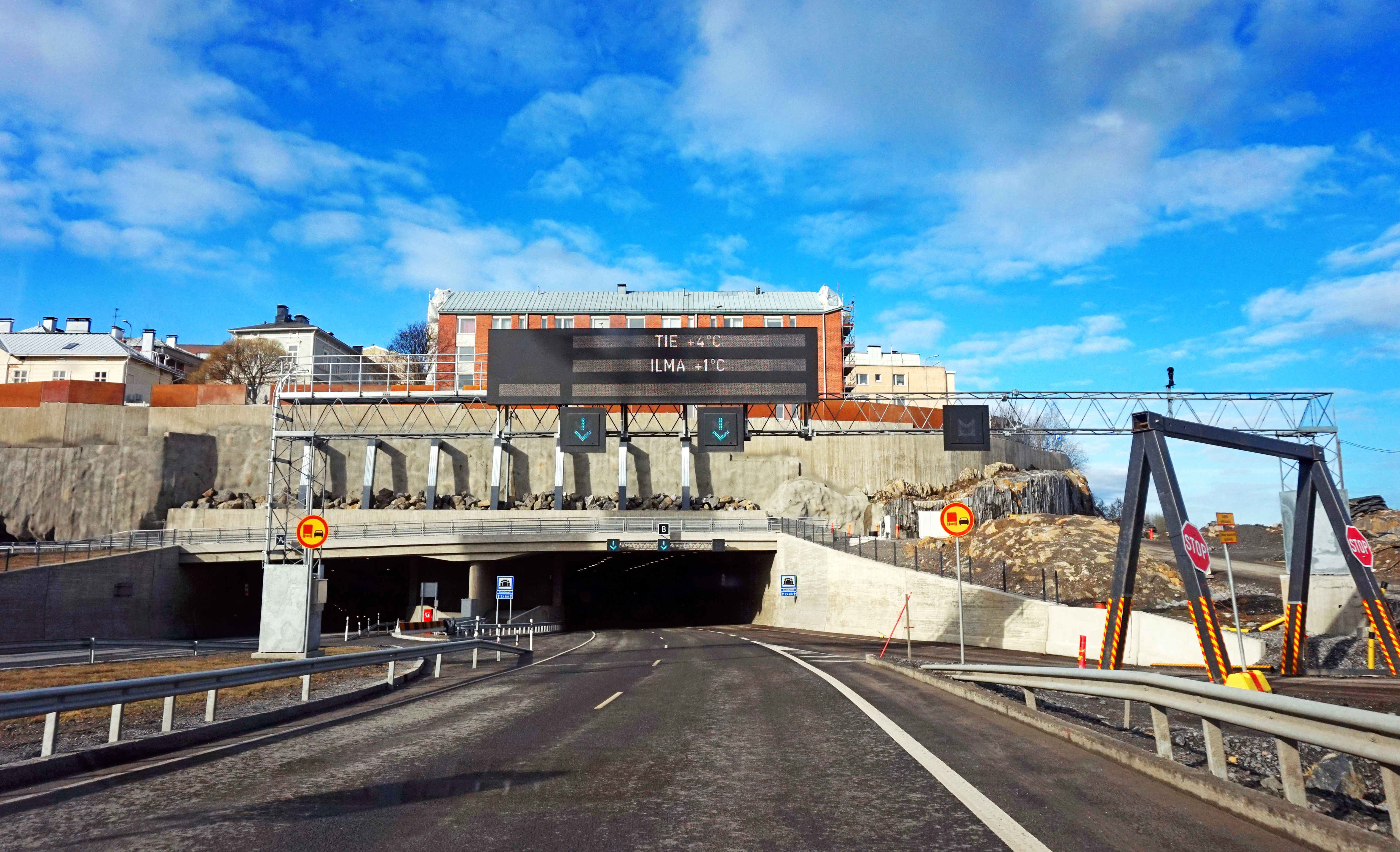 Eastern end of the Rantaväylä Tunnel in Tampere.